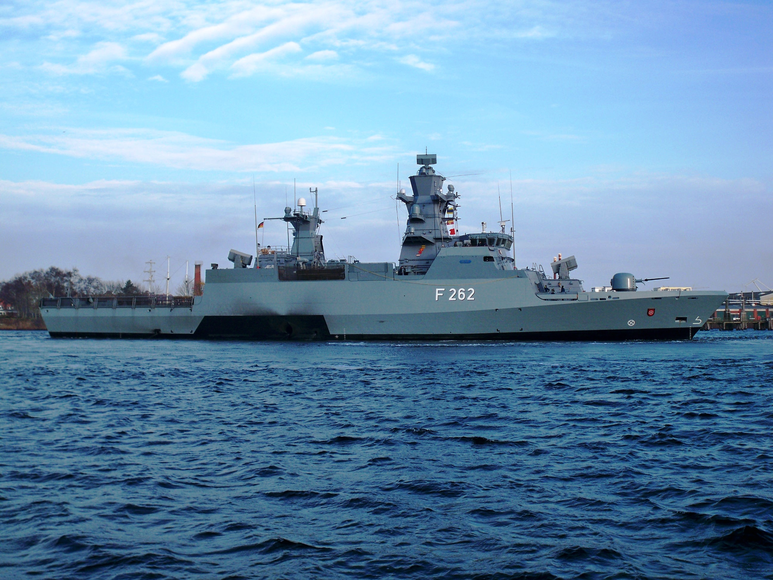 German corvette Erfurt at the deperming range in Wilhelmshaven